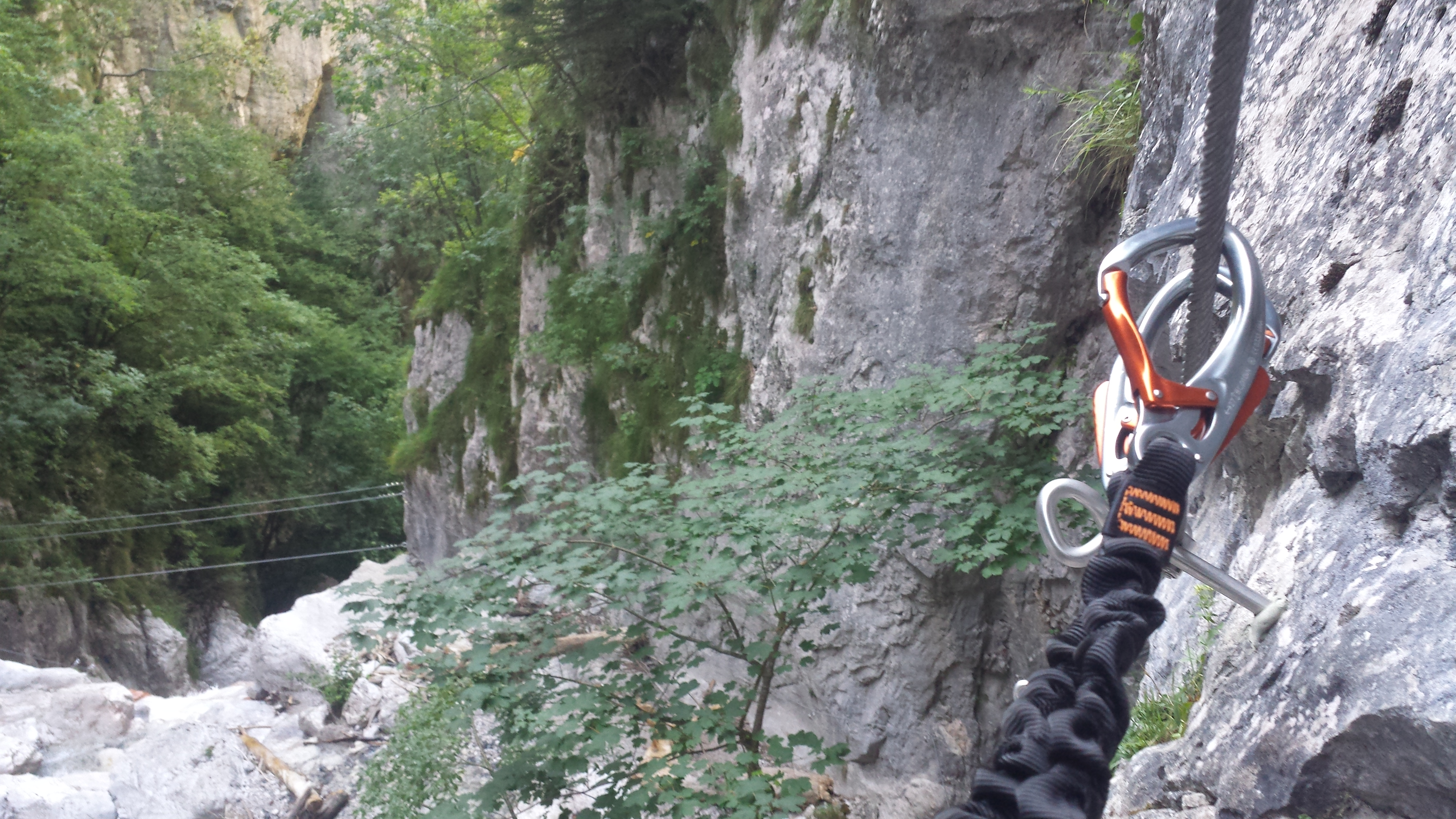 Ferata Hvadnik